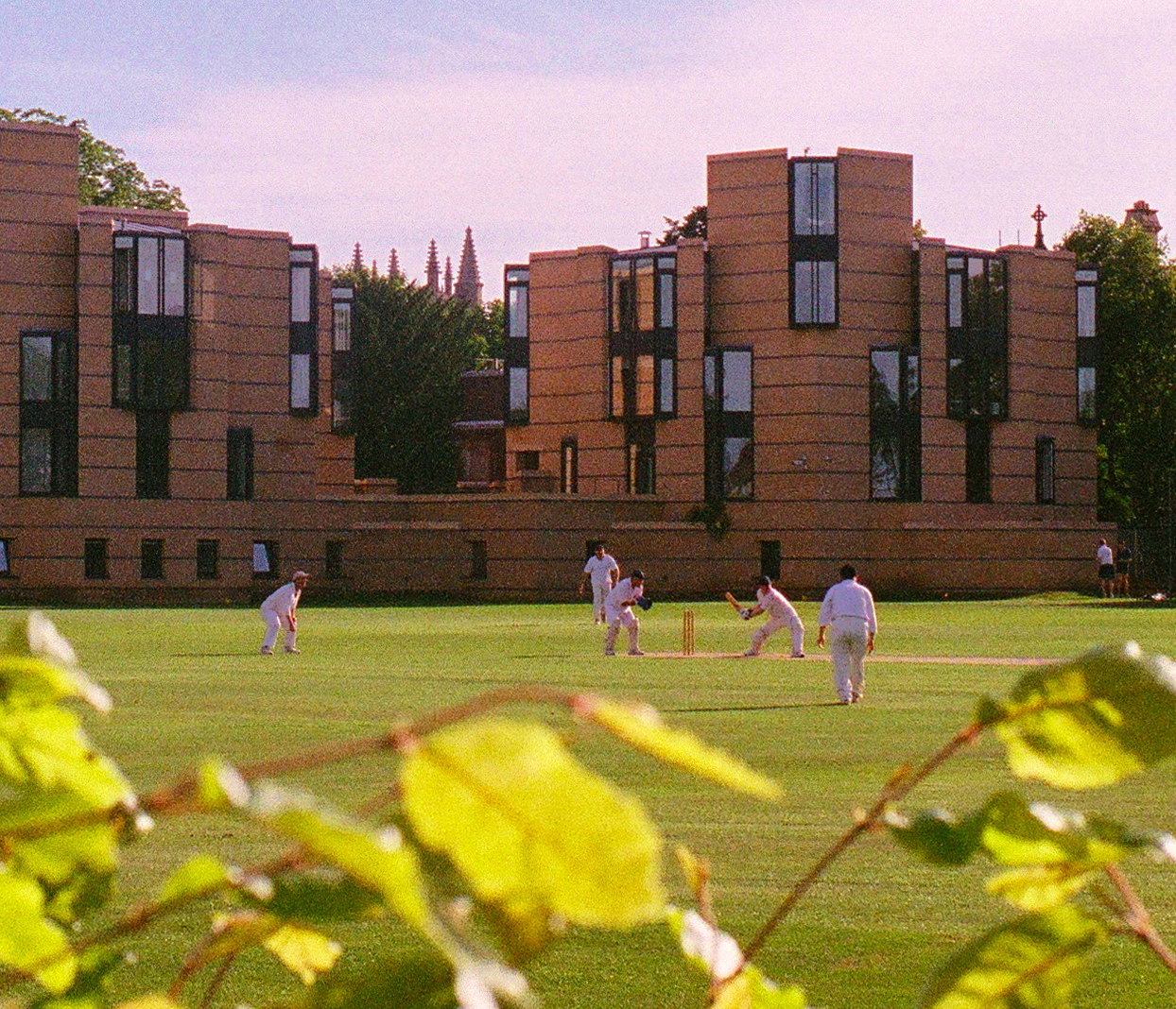 Cricket on the Master's field, Balliol College, Oxford, England. In the background are the Jowett Walk buildings.